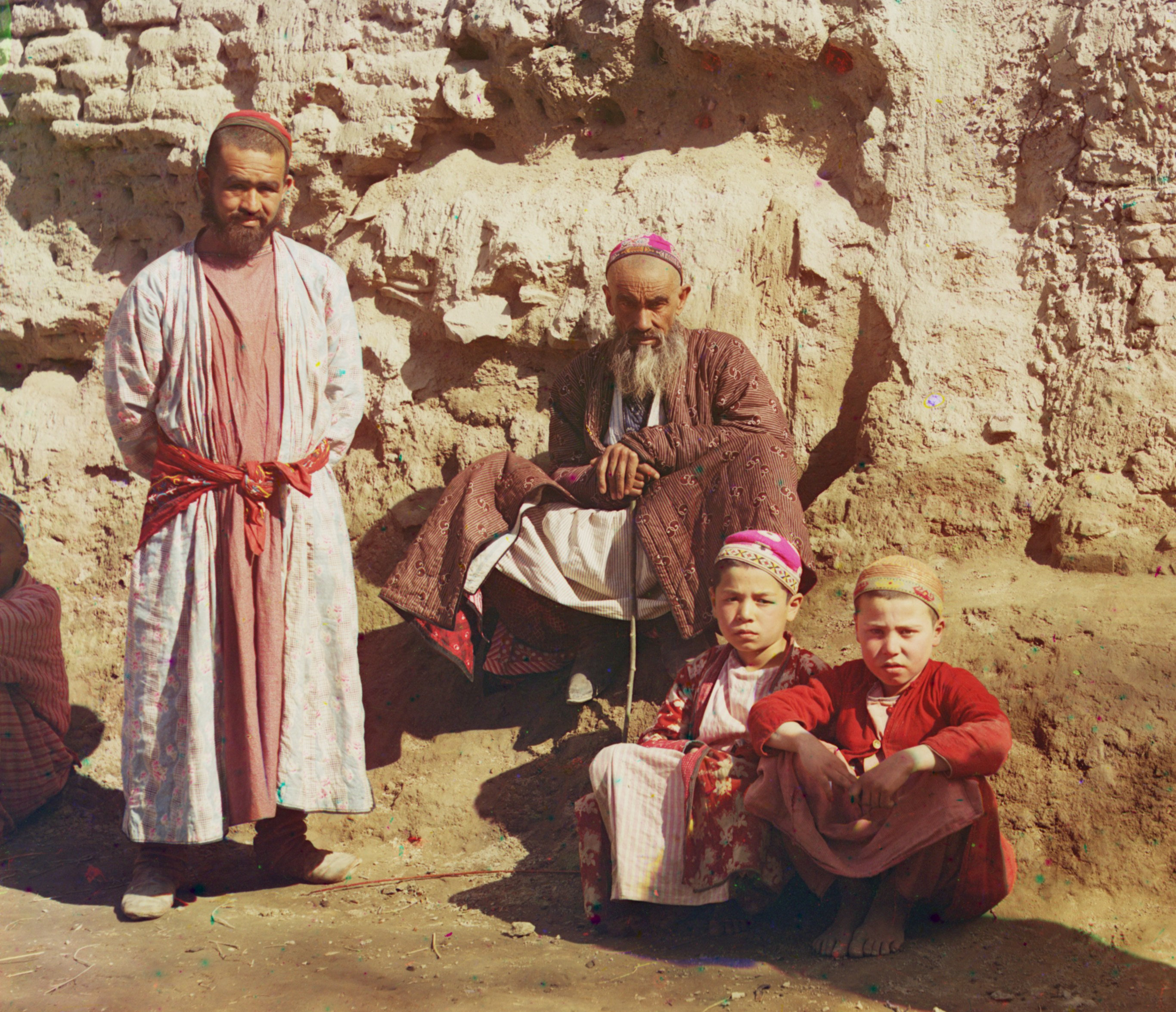 Two Sart men and two Sart boys posed outside, in front of wall.